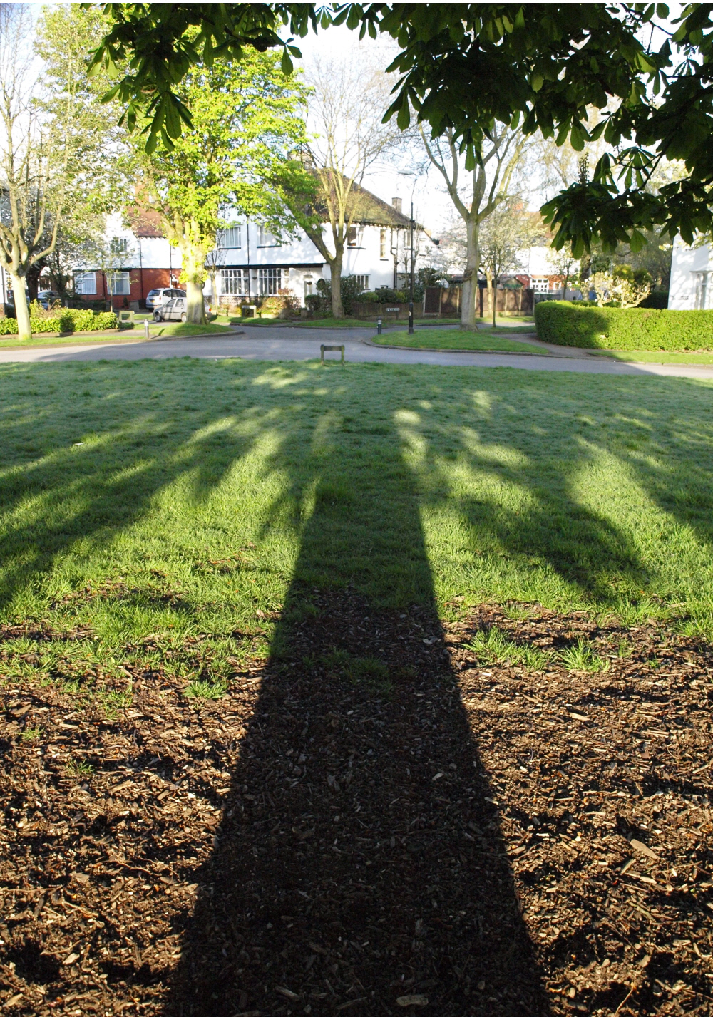 Shadow of the horse chestnut tree on The Meade, Chorltonville estate, Manchester, UK.